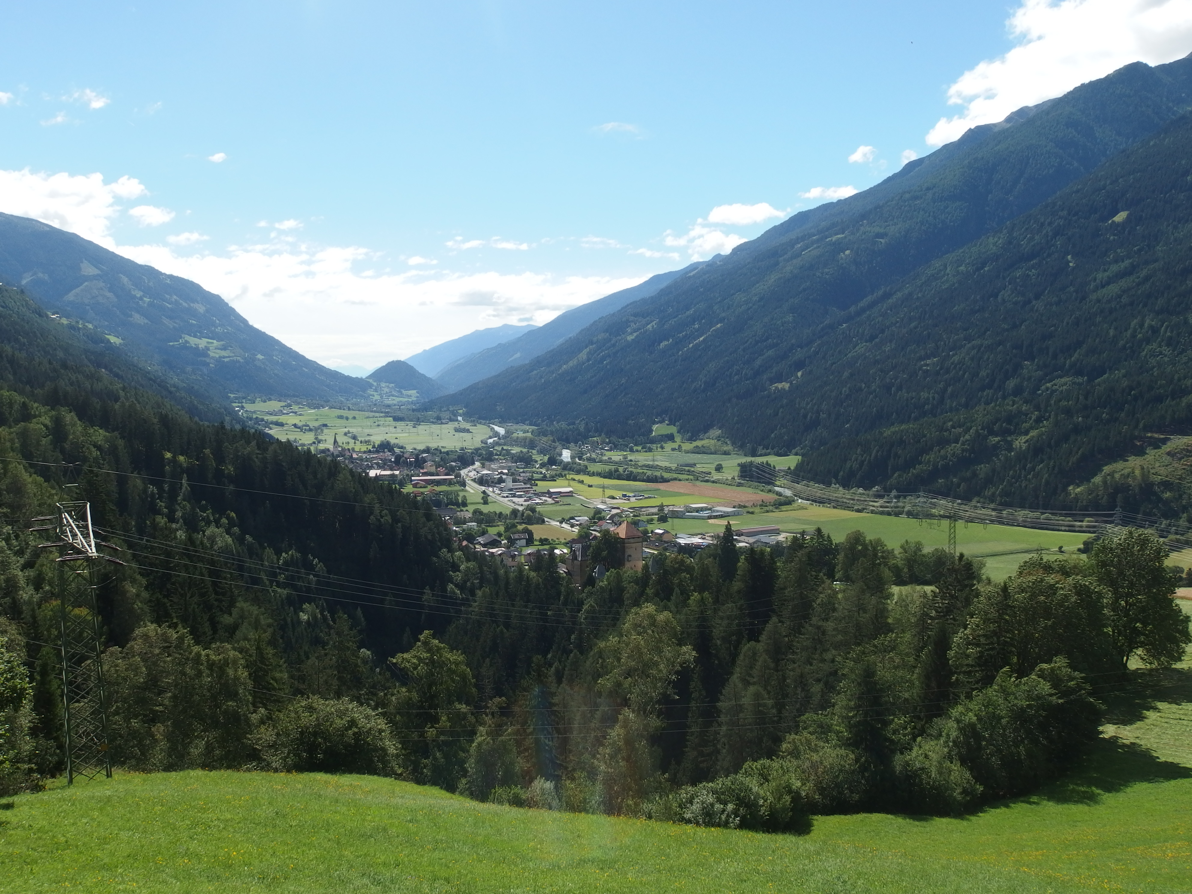 Obervellach, Spittal an der Drau District, Carinthia, Austria.